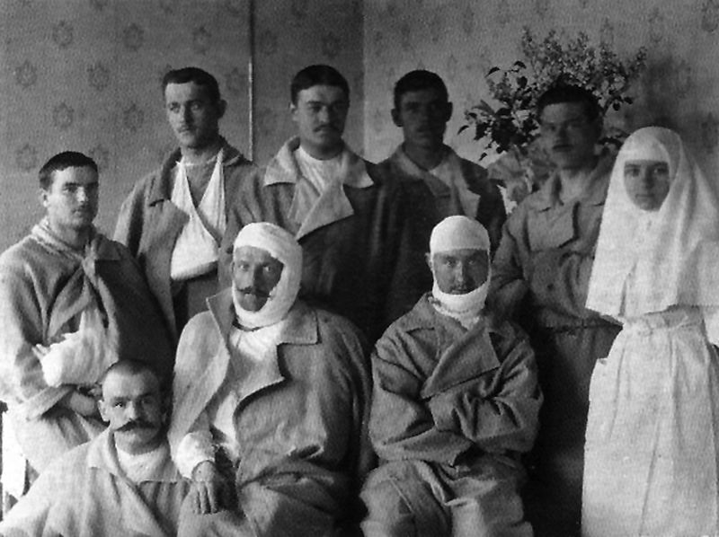 Friedrich Bredis in the hospital.